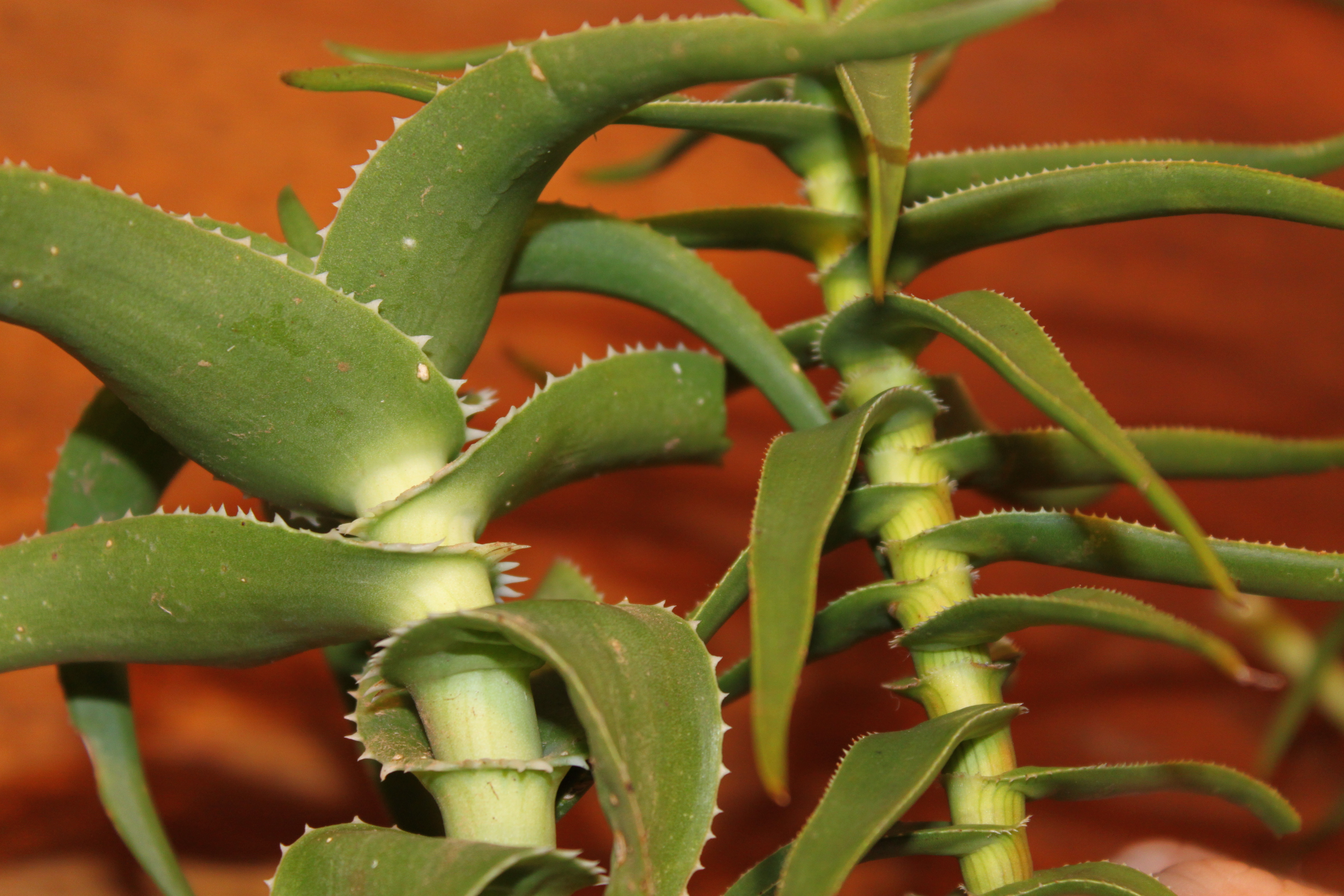 Aloe ciliaris tidmarshii. Comparison with the larger and more common Aloe ciliaris ciliaris which is on the left.